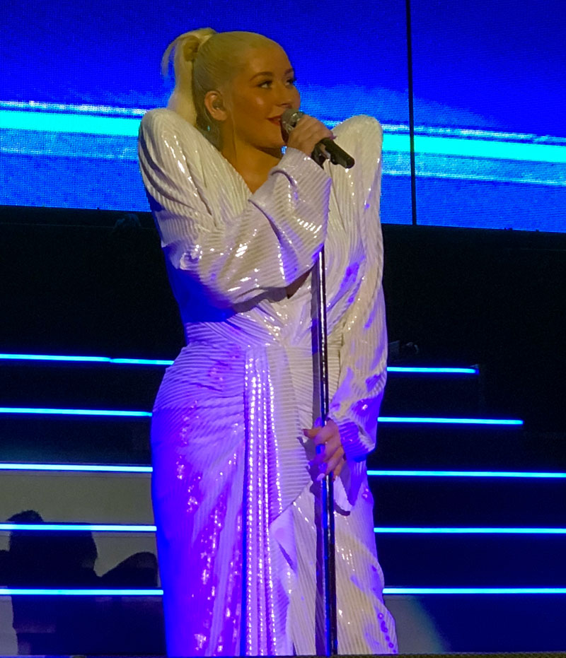 American recording artist Christina Aguilera performing "Twice". The performance took place at the Pepsi Center in Denver, Colorado, on October 19, 2018.